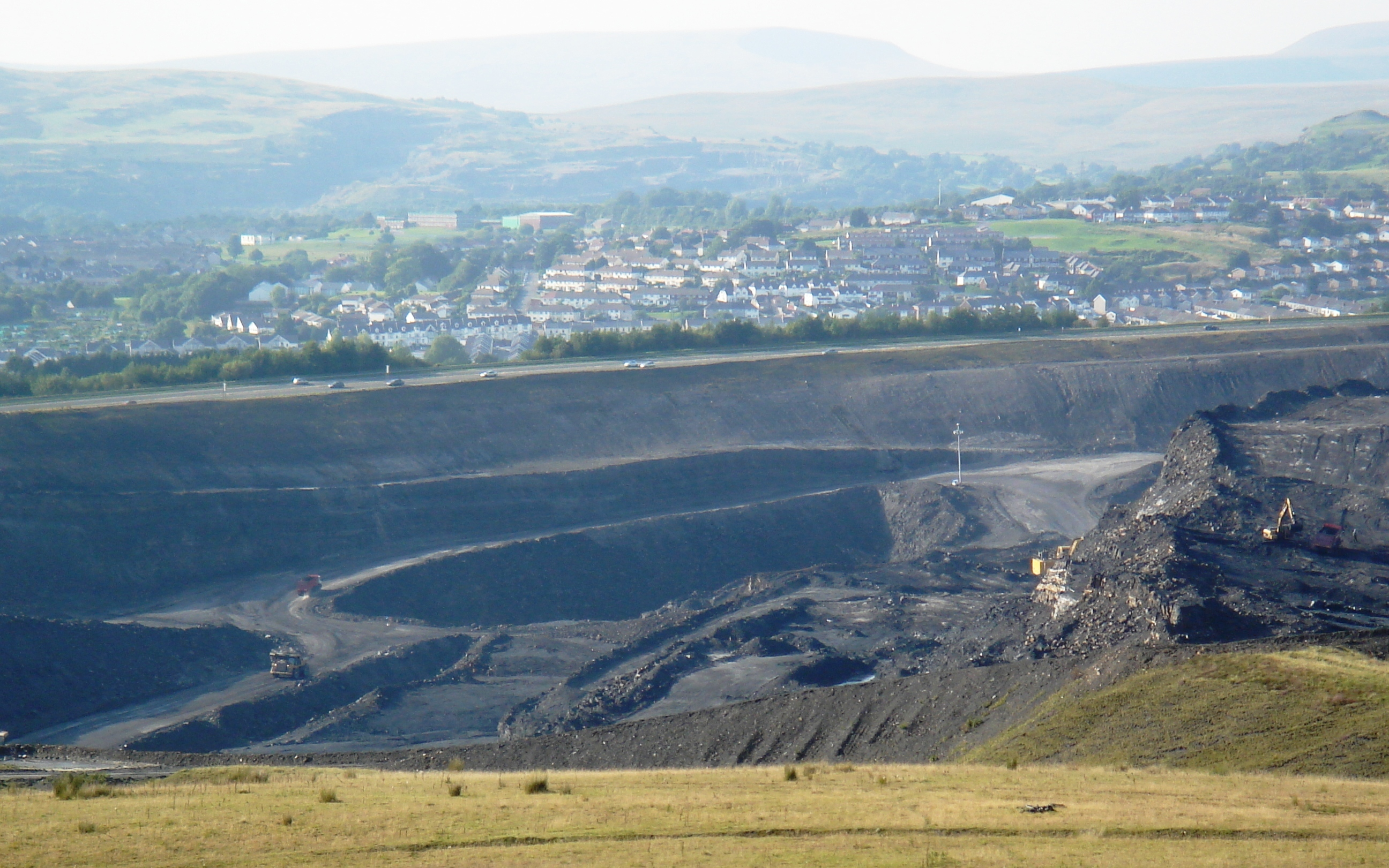 Ffos Y Fran open cast mine, Merthyr Tydfil. 2011.